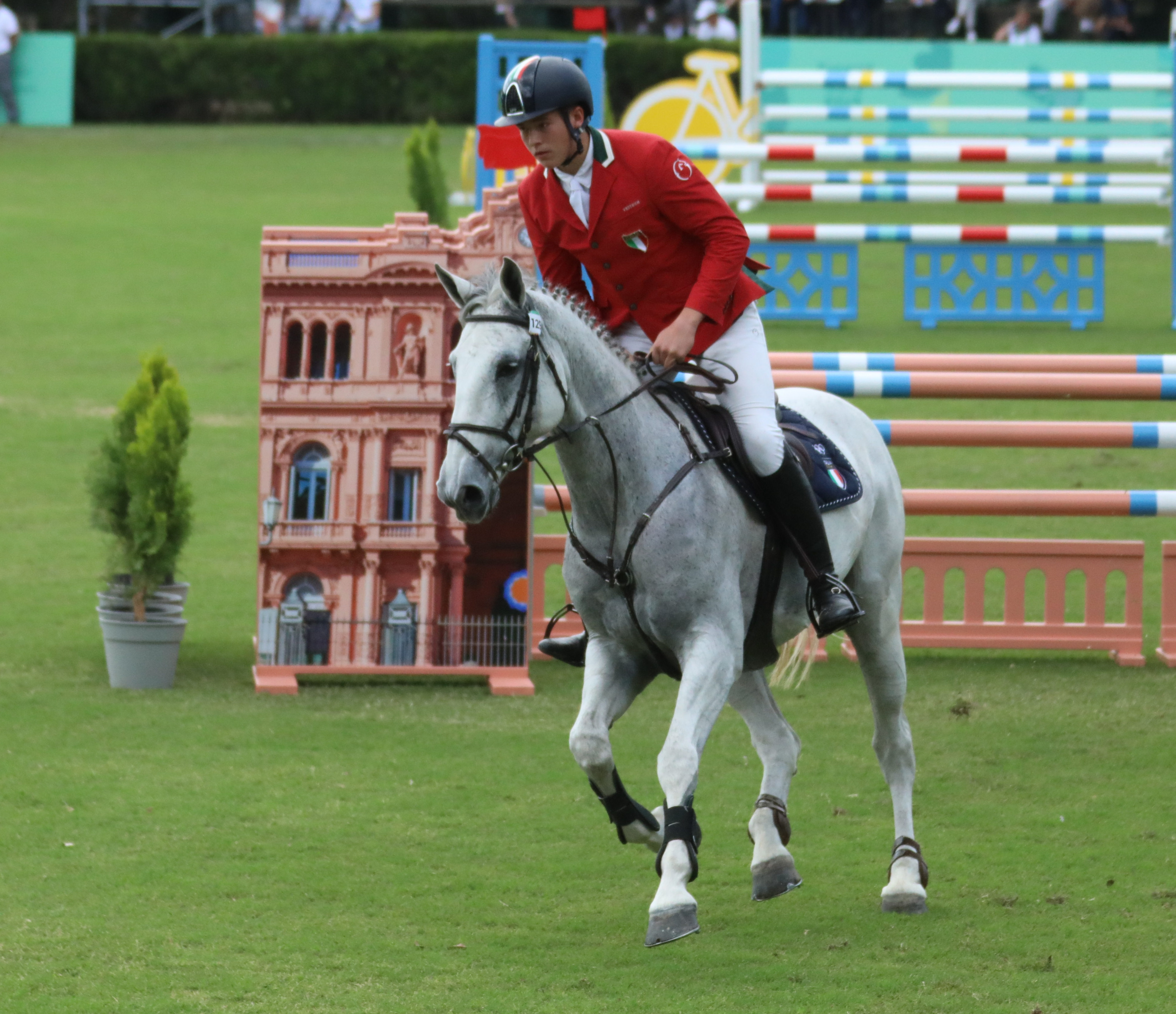 Round 1 at the Equestrian Jumping International Team Competetion at the 2018 Summer Youth Olympic Games in Buenos Aires